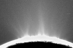 Cryovolcanism on Enceladus, one of Saturn's moons.